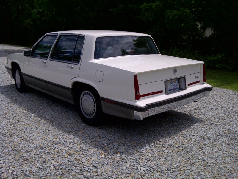 This is a picture of a vehicle (name of it is on the file name).